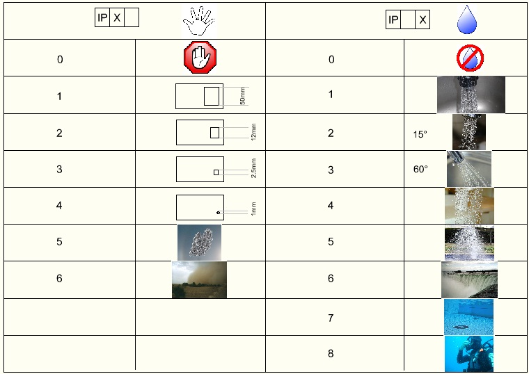 Ingress Protection rating. For example, you've bought light fixture or junction box and there is written "IP20" or "IP44". What does it mean? IP0X - device has no insulation IP1X - 50mm (1 inch) of uninsulated area (protection against hands) IP2X - 12.5mm (0.5 inch) of uninsulated area (protection against fingers) IP3X - 2.5mm (0.1 inch) of uninsulated area (protection against pliers) IP4X - 1.0mm (0.04 inch) of uninsulated area (protection against screwdriver) IP5X - protected against dust accumulation IP6X - Protection against any dust IPX0 - no protection against water IPX1 - vertically falling drops of water can't get in IPX2 - falling drops of water on angle up to 15° can't get in IPX3 - falling drops of water on angle up to 60° can't get in IPX4 - heavy drops of water can't get in IPX5 - a jet of water can't get inside IPX6 - strong jet of water can't get inside IPX7 - short dive into water (up to 1 meter) isn't harmful to this device IPX8 - device is working properly being immersed into water